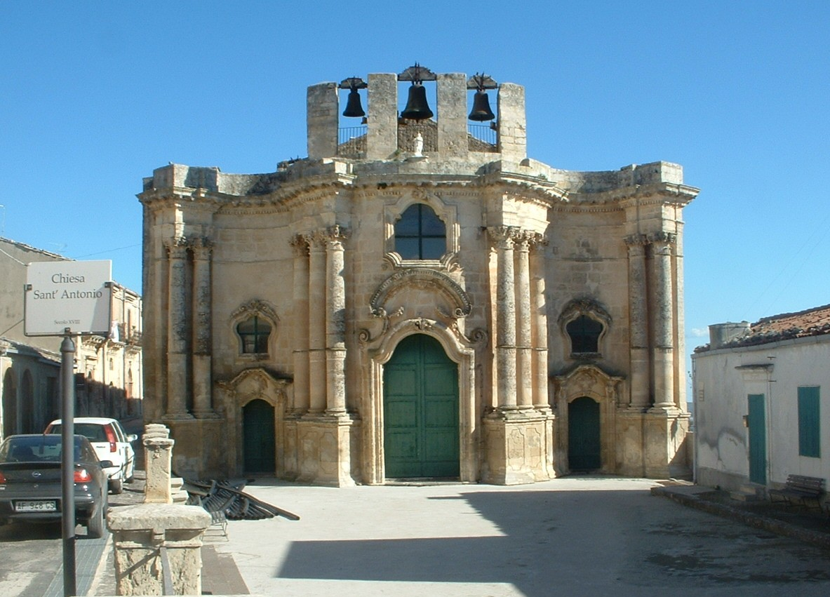 Buscemi (SR), Church of St. Anthony